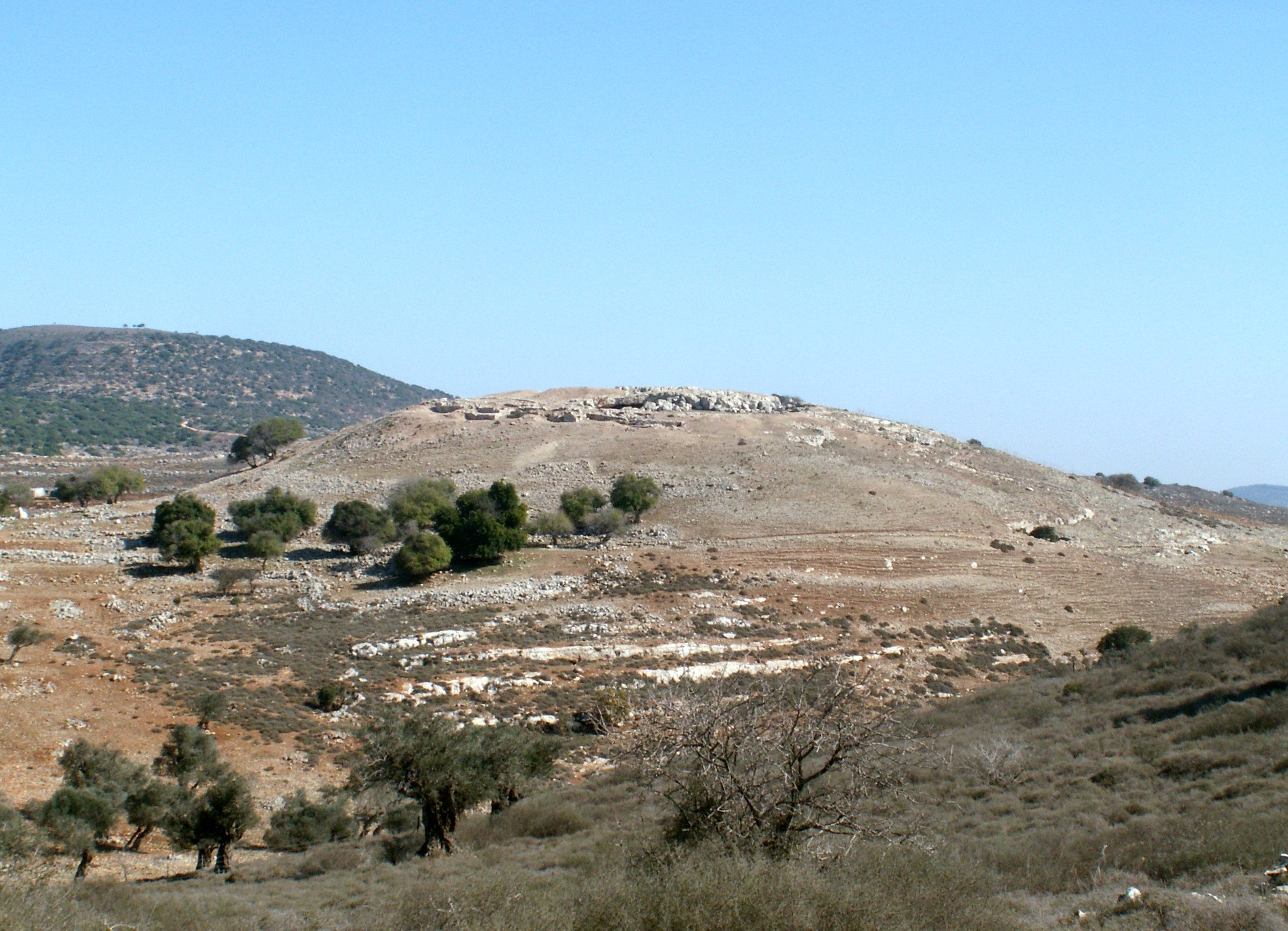 Hilltop location of ancient Yodfat (Jotapata), showing excavated remains of fortifications.